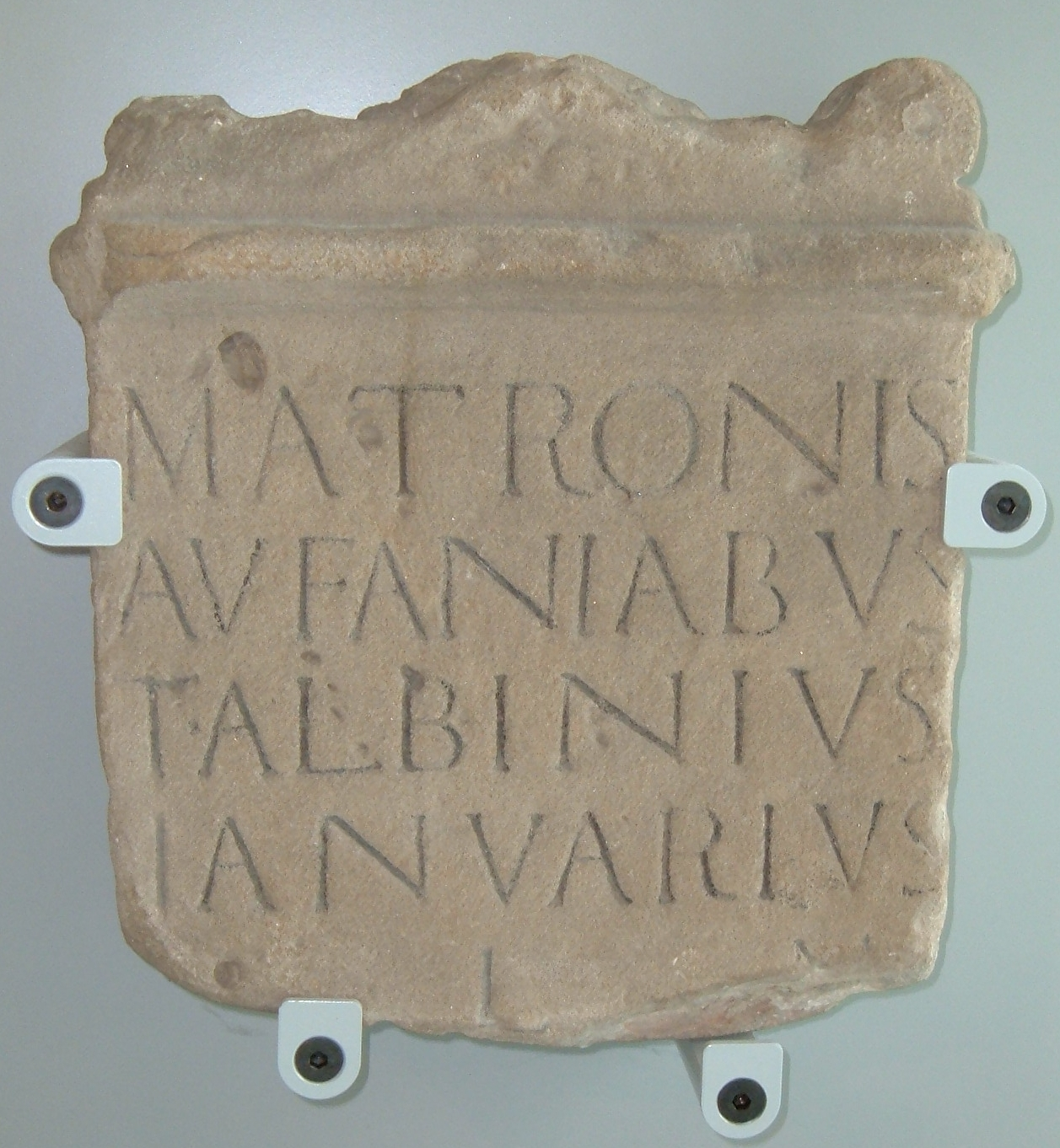 Roman-Germanic Matres and Matrones: Votive inscription to the Mothers of Aufania (Matronae Aufaniae) by Titus Albinius Januarius, found in Nijmegen, Netherlands; the Matrones Aufaniabus were local deities, their main place of worship was near Bonn, Germany (2nd or 3rd century; Museum Het Valkhof, Nijmegen; CIL XIII, 8724 = AE 2007, 1024, EDH:HD066431).